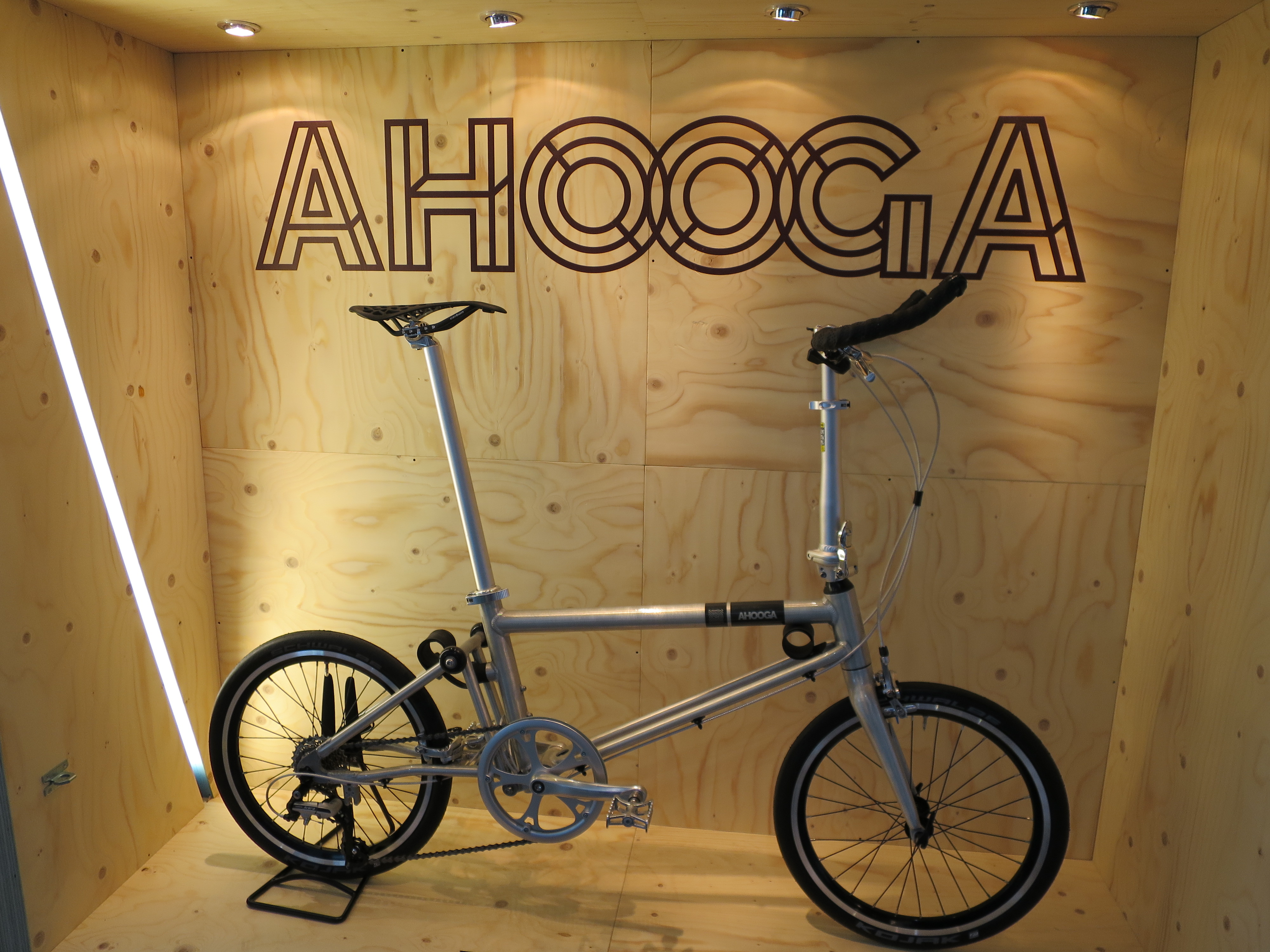 Ahooga folding bike Berliner Fahrradschau 2017.